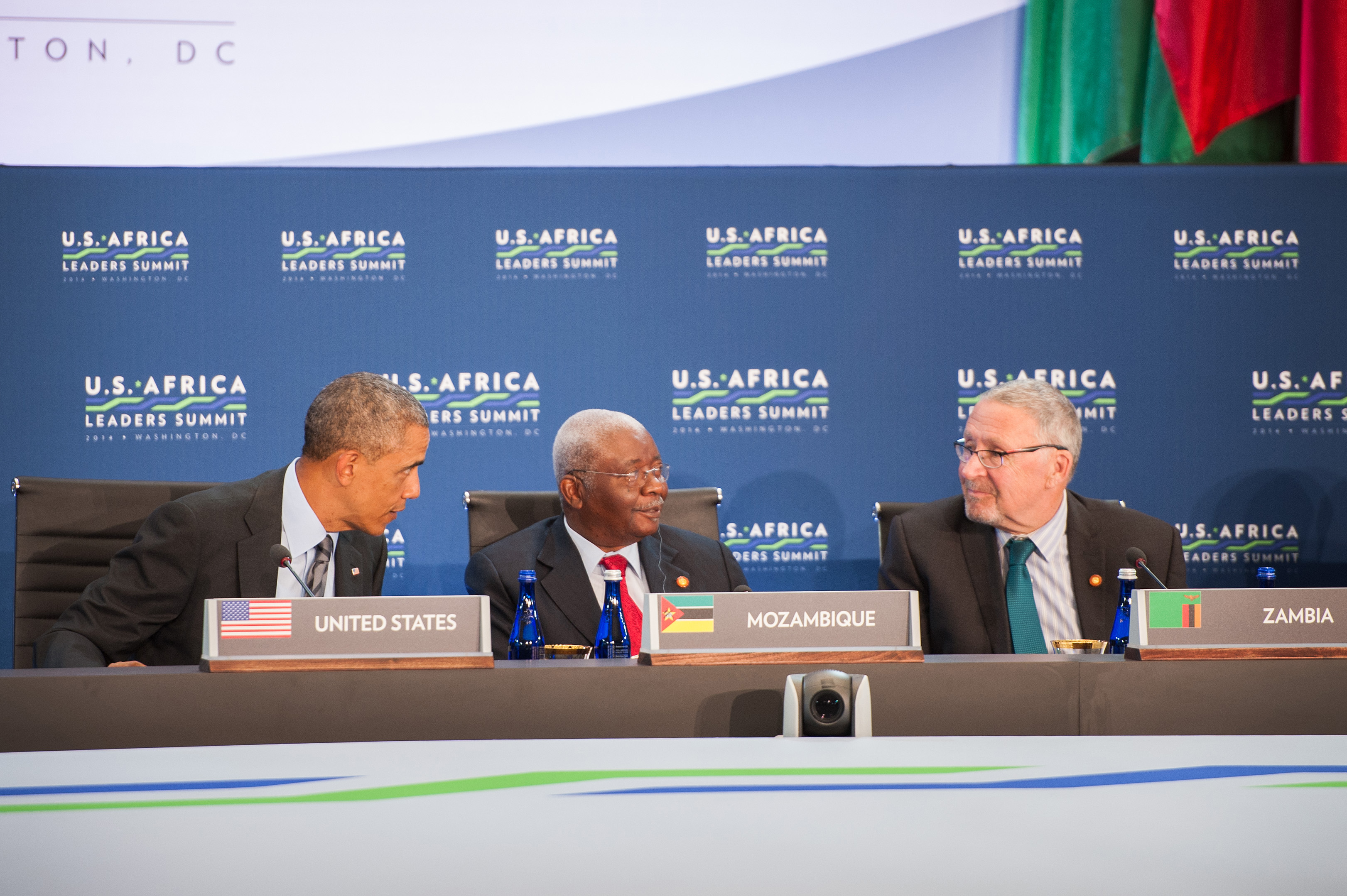 President Barack Obama chats with Mozambique's President Armando Guebuza and Zambia's Vice President Guy Scott before delivering remarks at the U.S.-Africa Leaders Summit Session One on “Investing in Africa’s Future,” at the U.S. Department of State in Washington, D.C., on August 6, 2014. [State Department photo/ Public Domain]